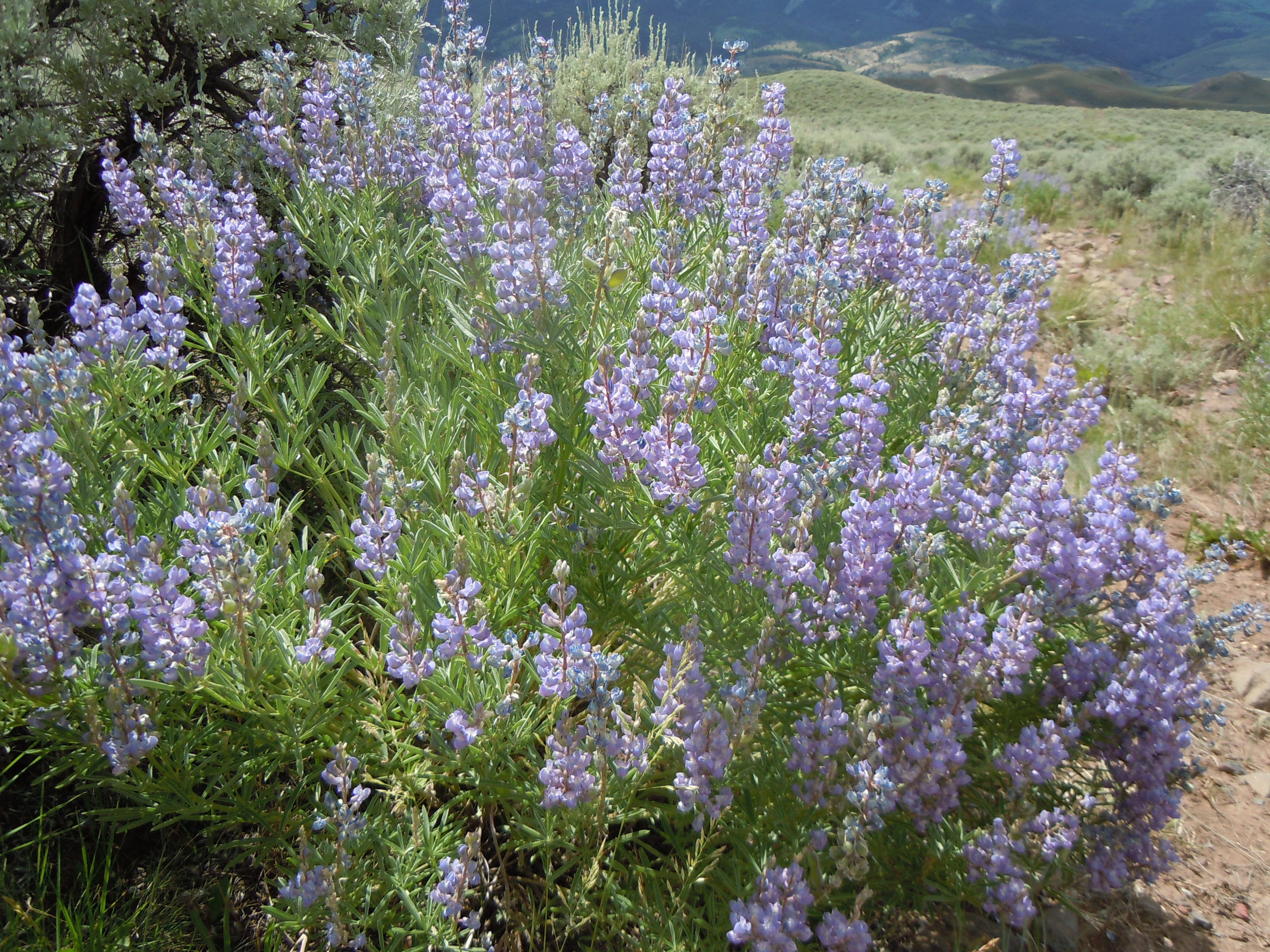 Lupinus inhabits disturbed sites, especially roadsides and two-track roadbeds, in the sagebrush steppe of Montana and Idaho. This is especially the case in Wyoming big sagebrush steppe or other settings where seasonality is greater (i.e., the annual water deficit greater). This species does not inhabit the adjacent sagebrush steppe where native plant cover is 100%.